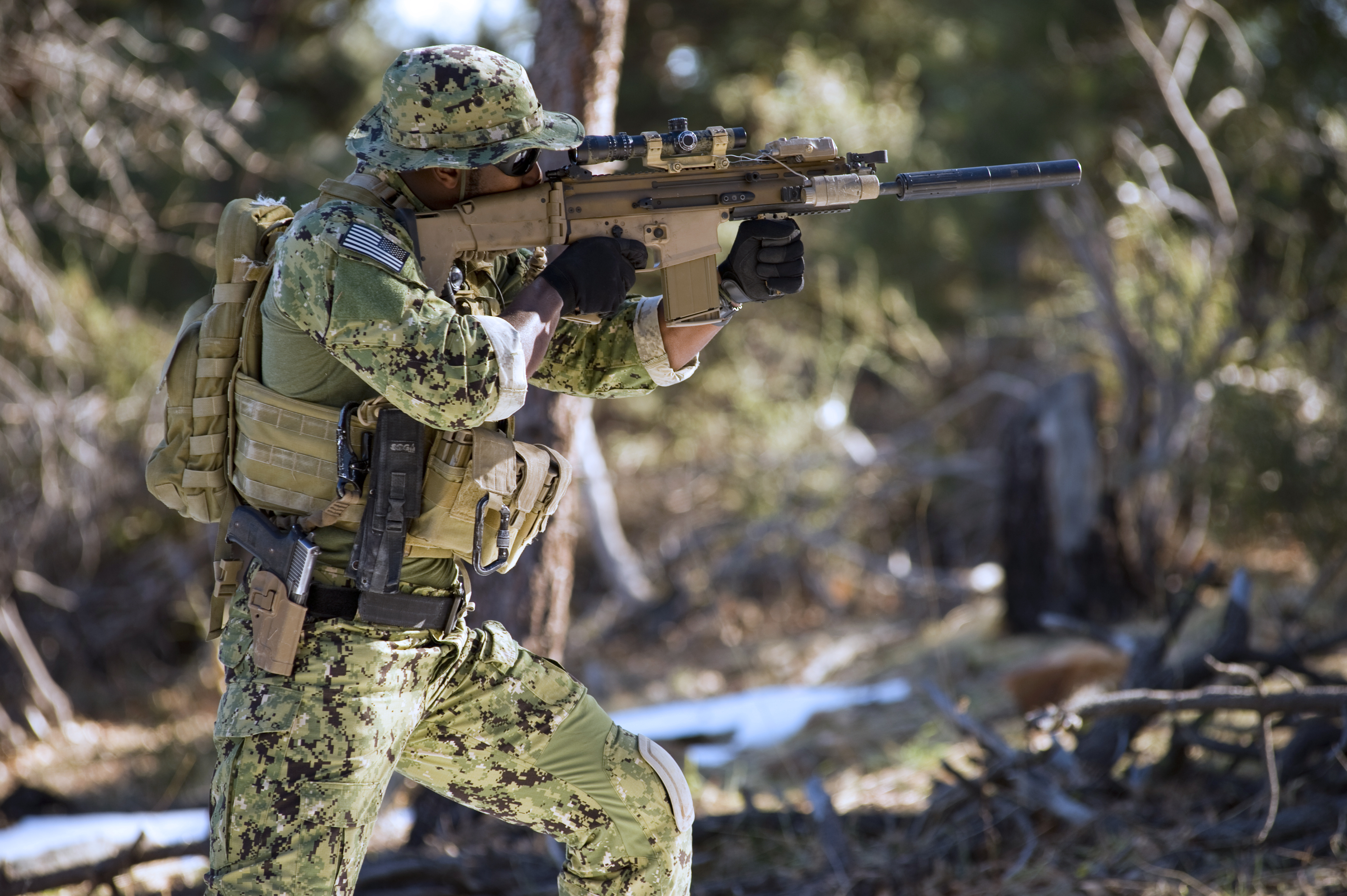 120109-N-OT964- California (09 Jan. 2012) Navy SEALs conduct training on land and in water. U.S. Navy photo by Mass Communication Specialist 2nd Class Martin L. Carey